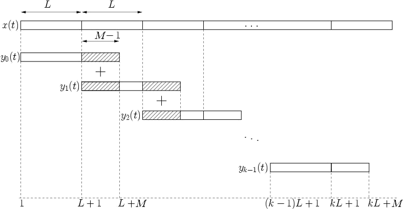 Illustration of the concept of the Overlap-add method for fast convolution.